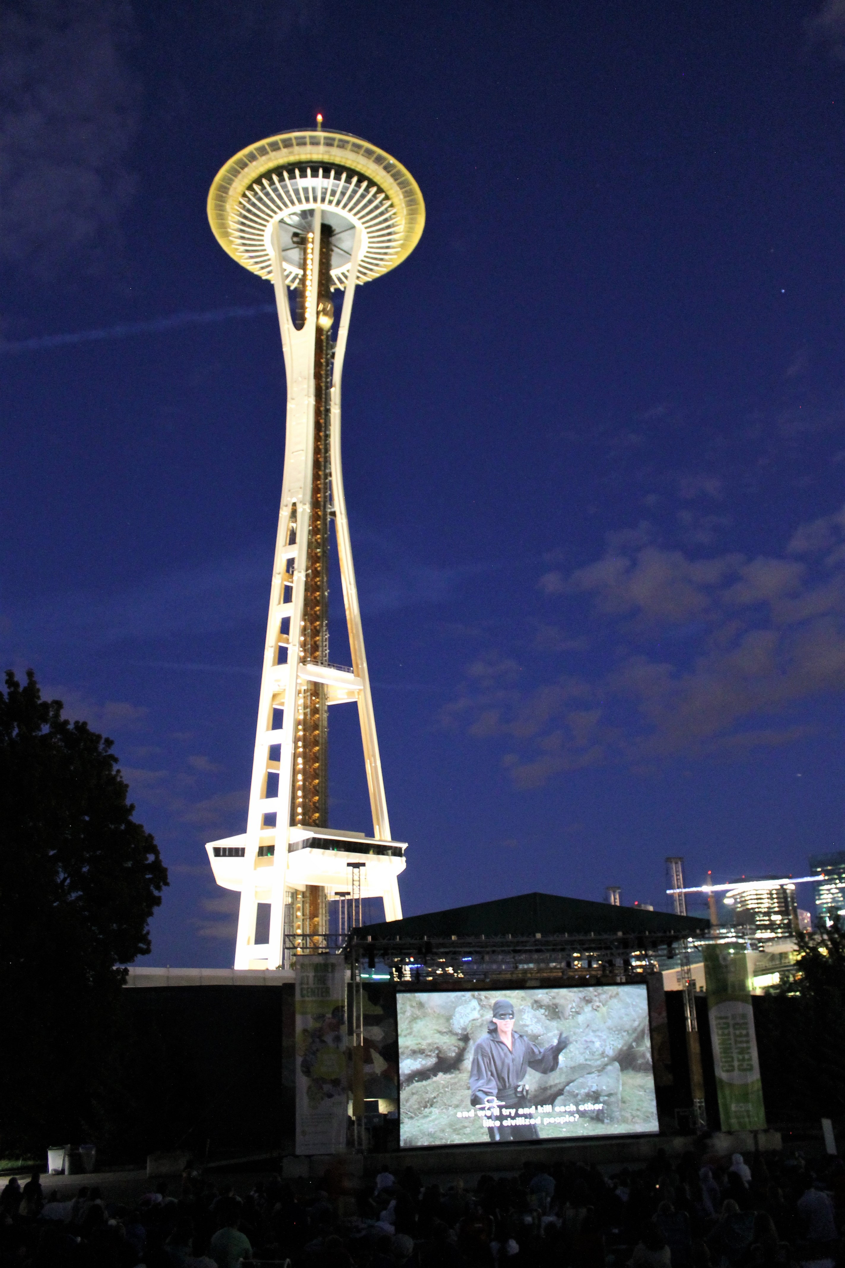 This is a photo of the movie Princess Bride playing underneath the Space Needle at the free event 'Movies at the Mural' at the Seattle Center.